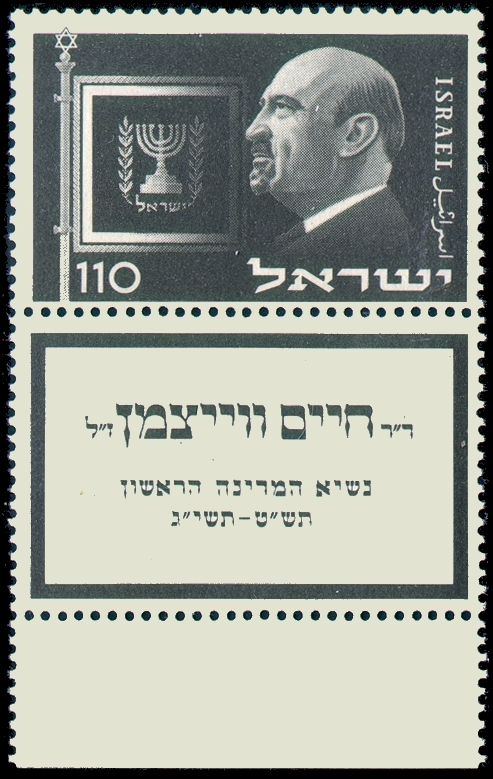 1952 Israeli postal stamp depicting the first President of Israel Dr. Chaim Weizmann - 110 mil